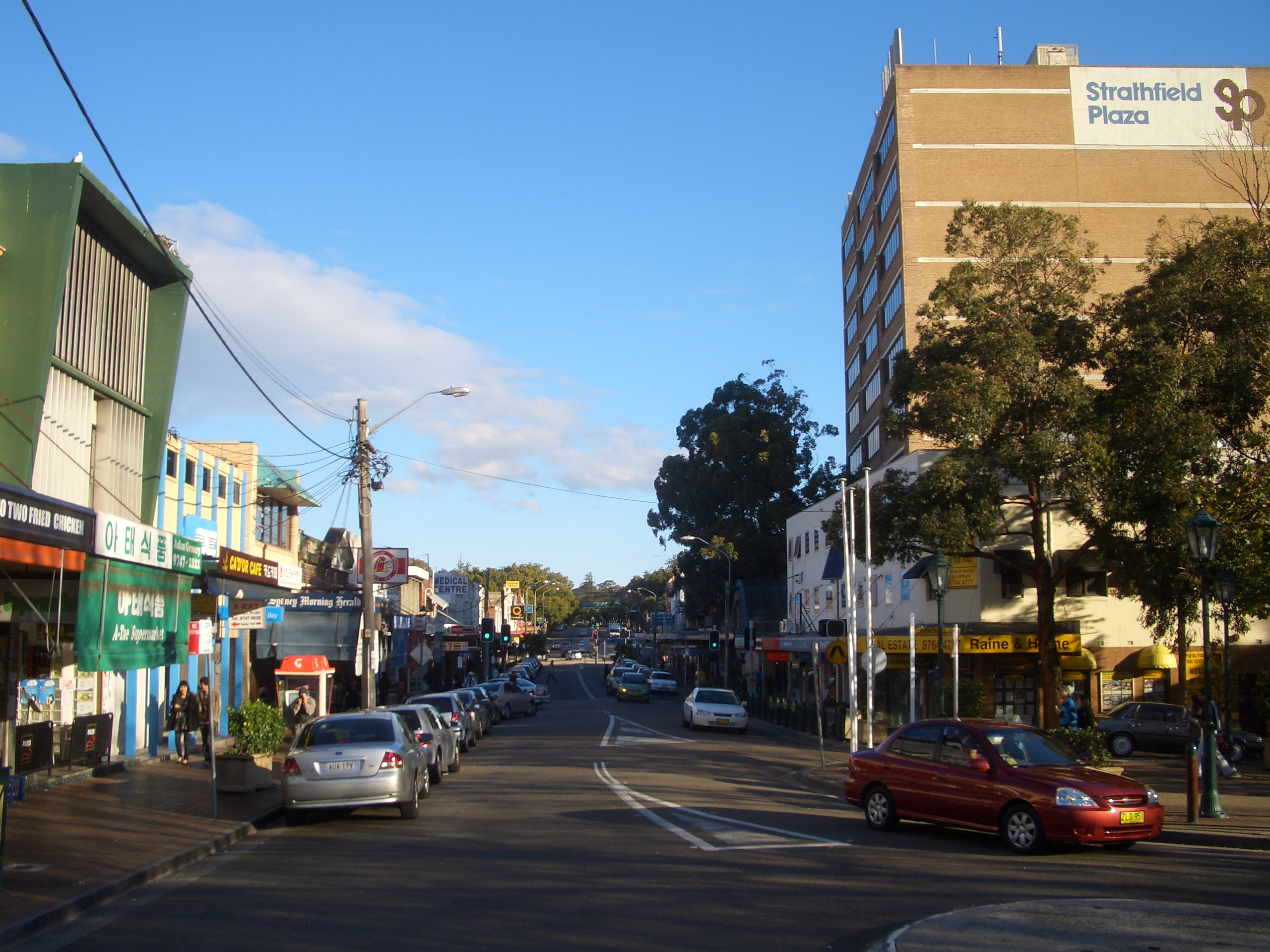 Strathfield, The Boulevarde